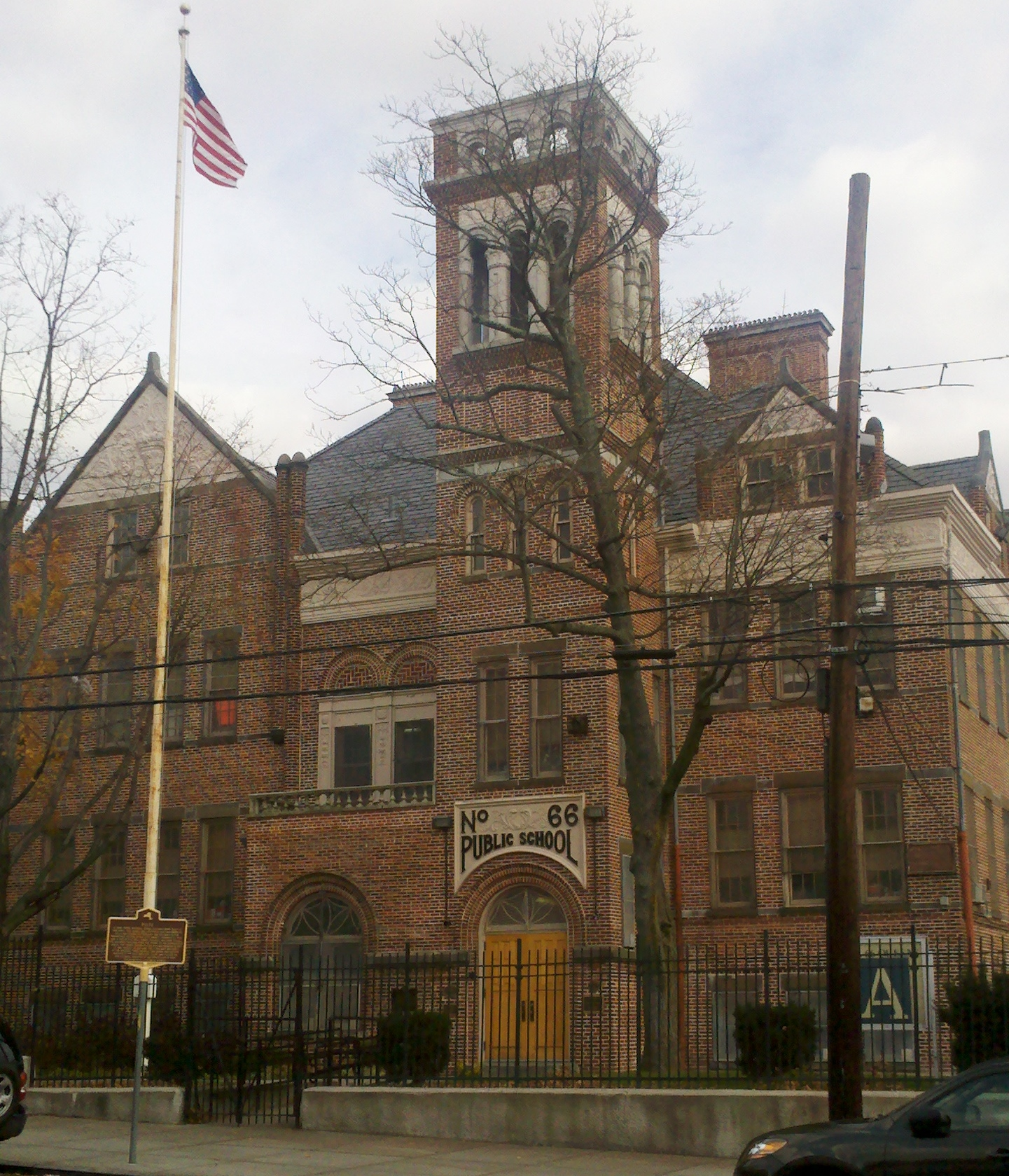 PS 66 Queens, a historic building used continuously as a school since its completion in 1898. Designed by noted school architect C. B. J. Snyder. Located at 85-11 102 Street, Richmond Hill, NY 11418, USA, in the Richmond Hill section of the Borough of Queens, City of New York.